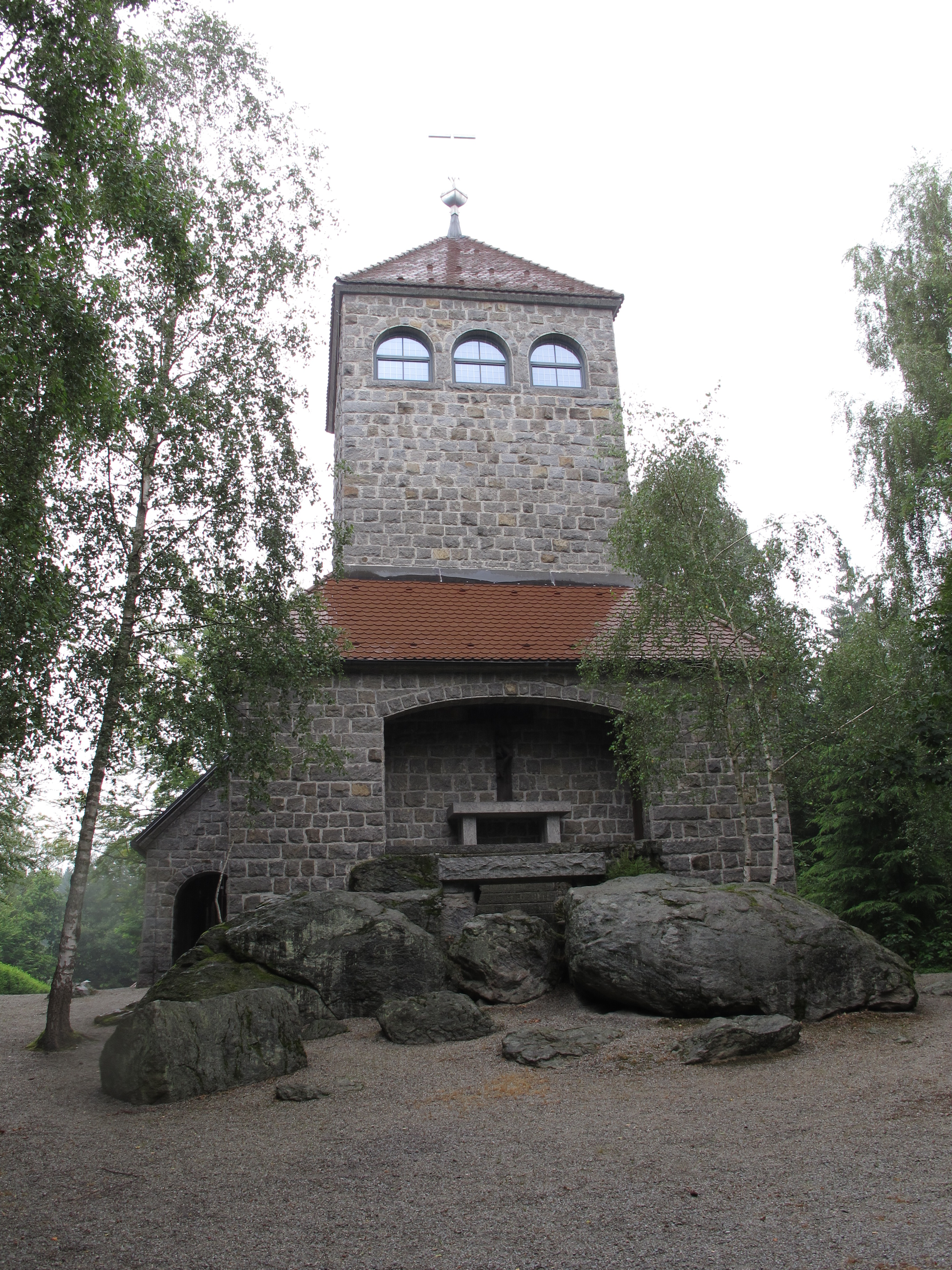 Fatimakapelle Schardenberg